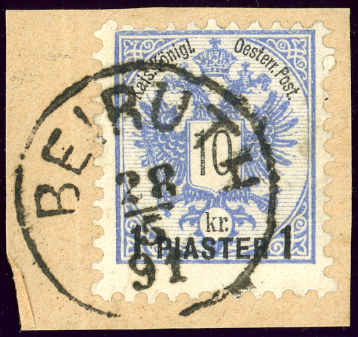 Stamp of Austrian Levant, issue 1888, overprint 1 piaster, fragment cancelled BEIRUTH on 28-5-1891. Michel N°17.